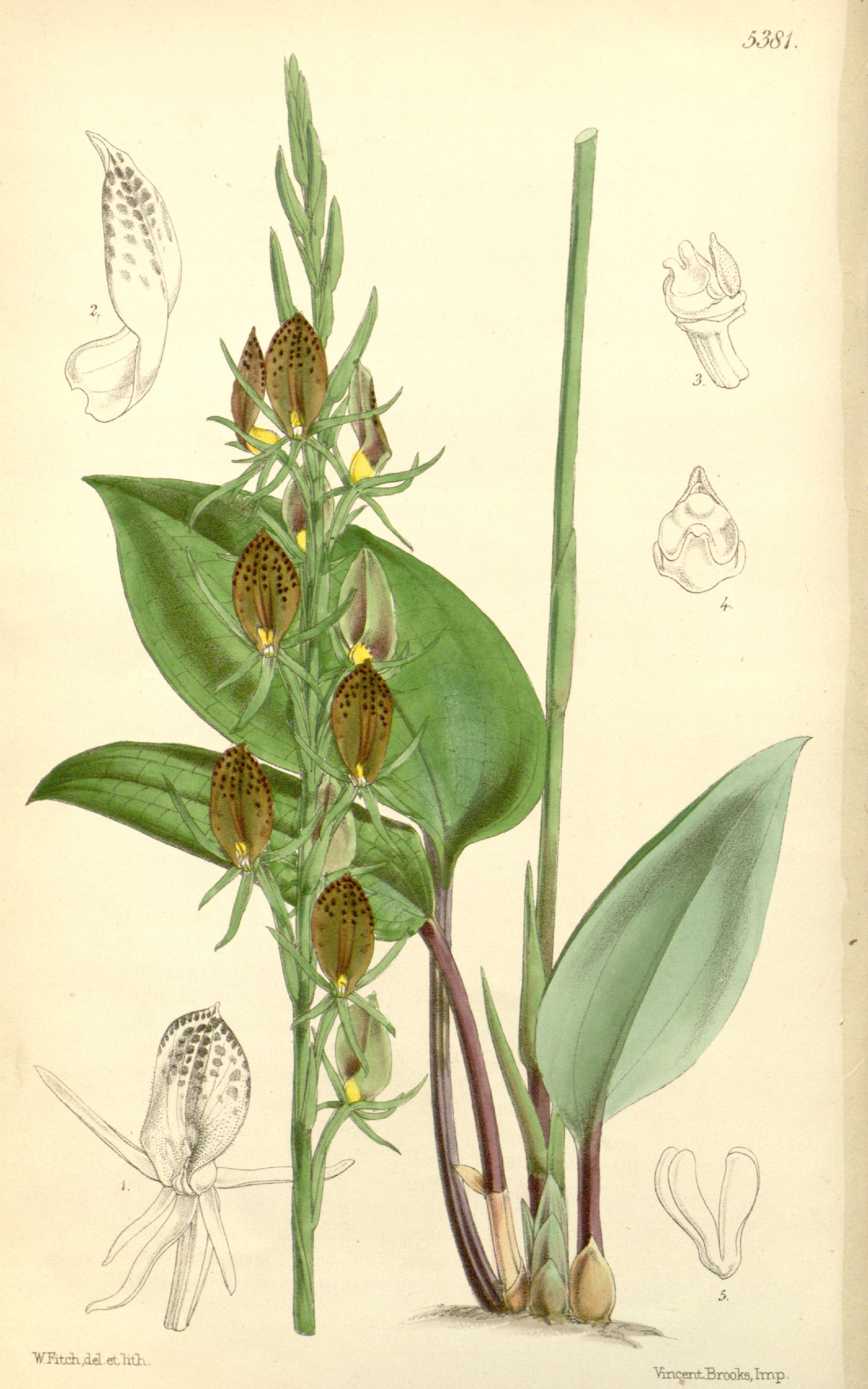 Illustration of Cryptostylis arachnites (as syn. Zosterostylis arachnites)